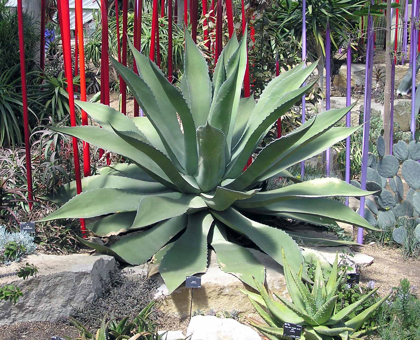 Agave salmiana at Kew Gardens, London, England, very roughly 3 feet (1 metre) high. The tubes are glass sculptures (part of an exhibition). Taken by Adrian Pingstone in June 2005 and released to the public domain.